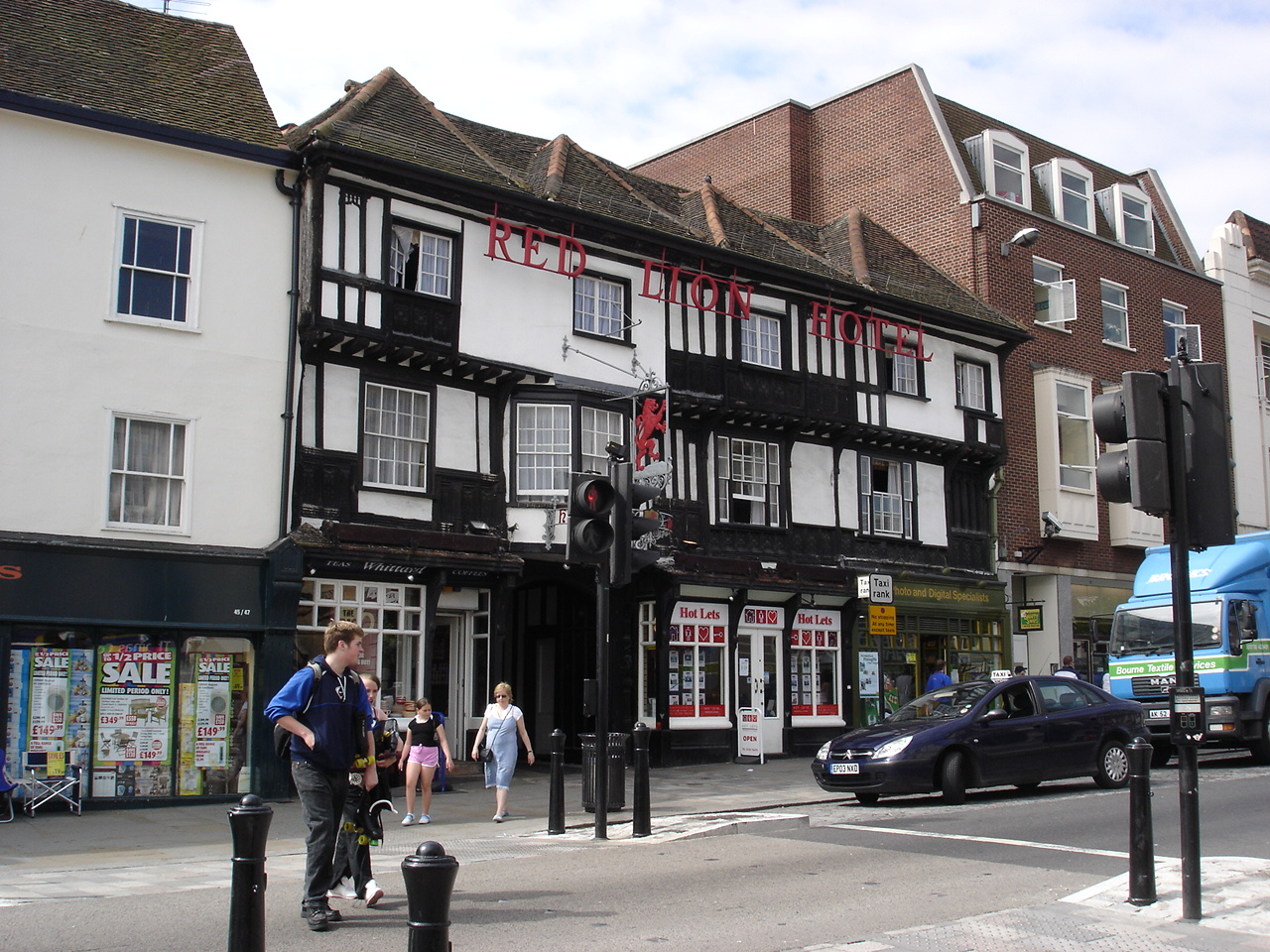 The Red Lion Hotel was built in 1465 and is in the centre of Colchester, Britain's oldest recorded town. The historical building has original Tudor features, including wooden beams. The Hotel is one of the oldest inns in the area